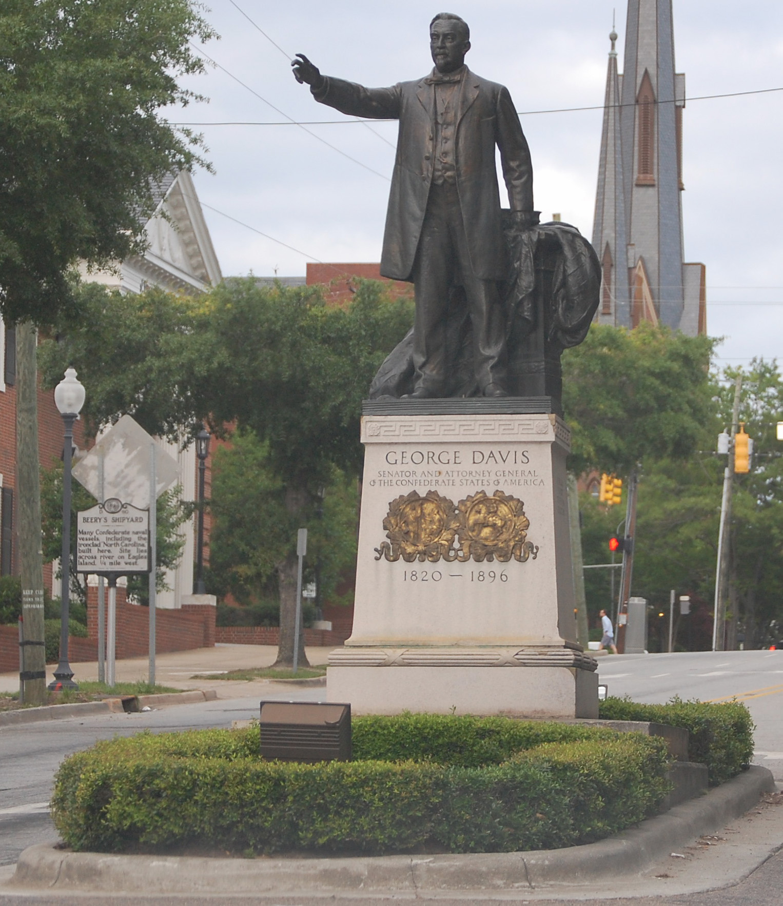 Statue of George Davis, last Confederate Attorney General, in historic downtown Wilmington, NC.